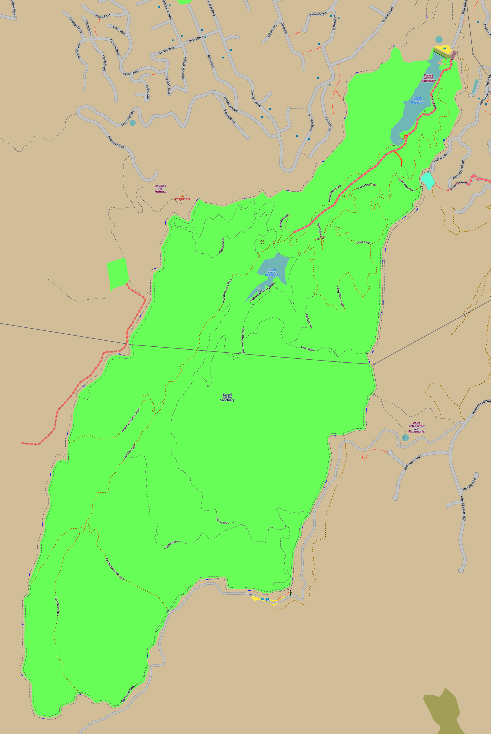 Map of Zealandia (Karori Wildlife Sanctuary) from